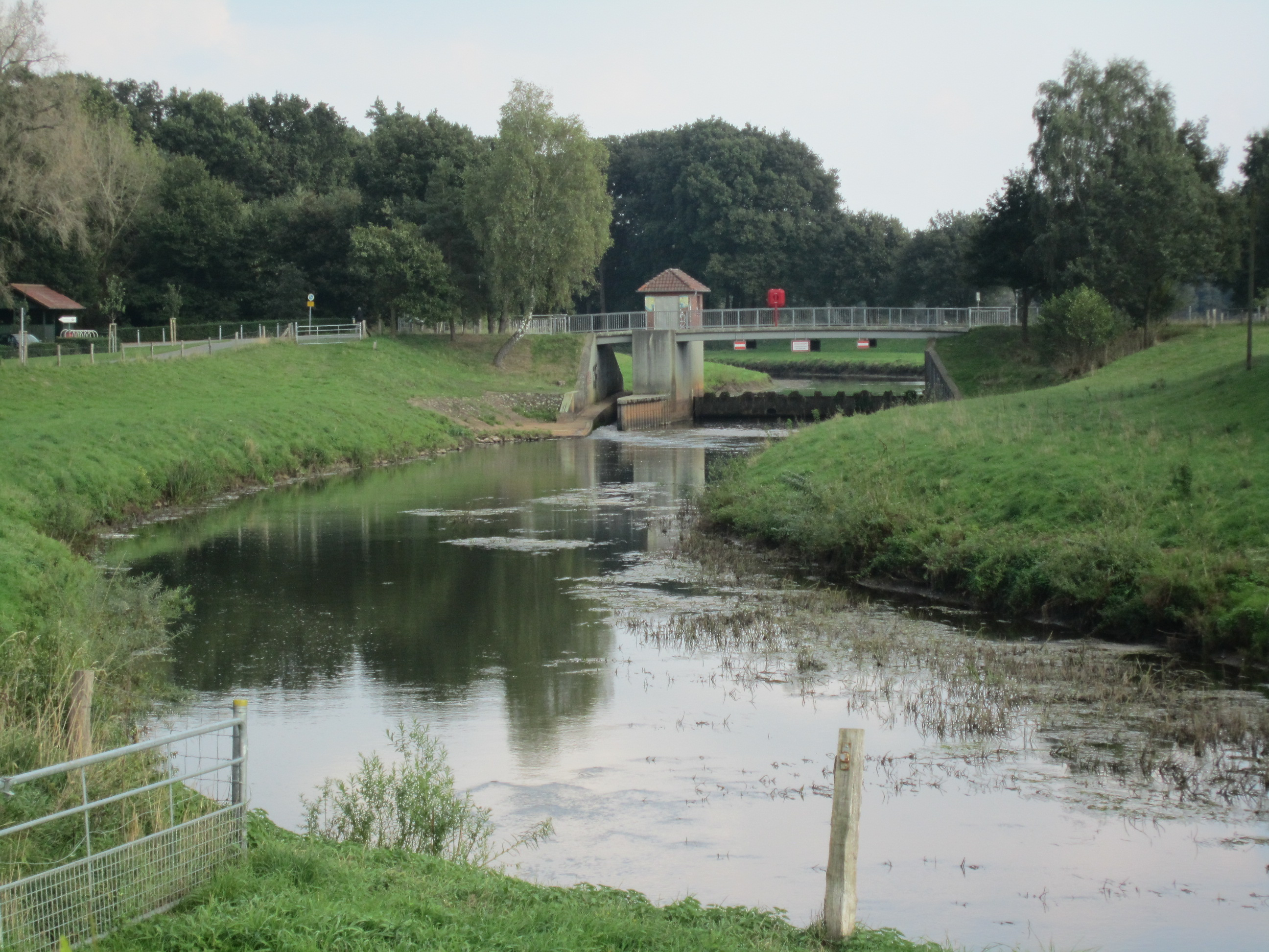 Weir across River Hase ("Brokhagen Stau") near Essen (Oldenburg)